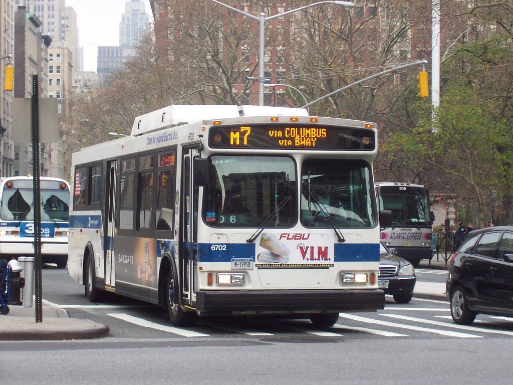 NYCTA Orion 7 hybrid #6702 at Madison Square Park